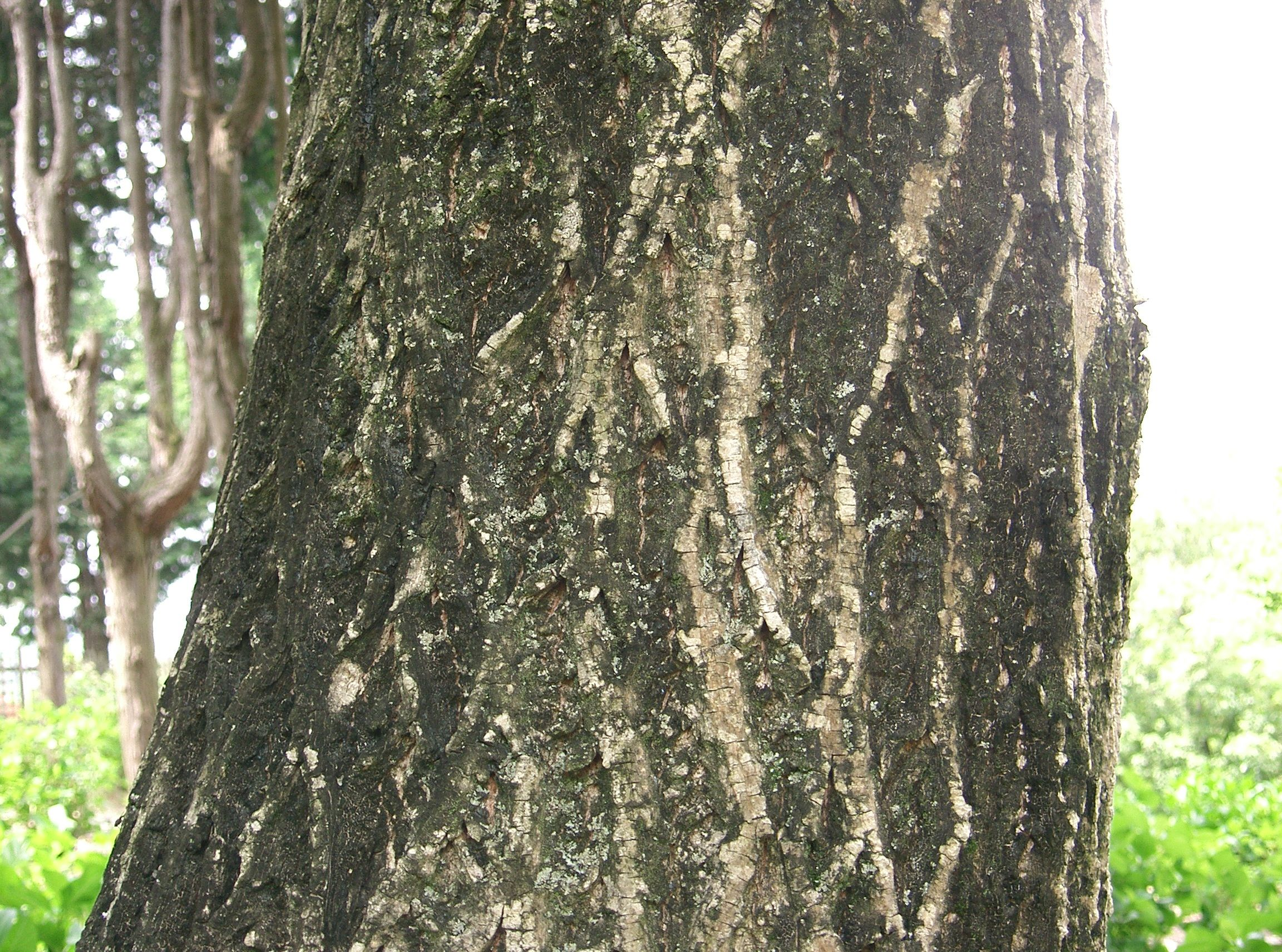 Pterocarya stenoptera